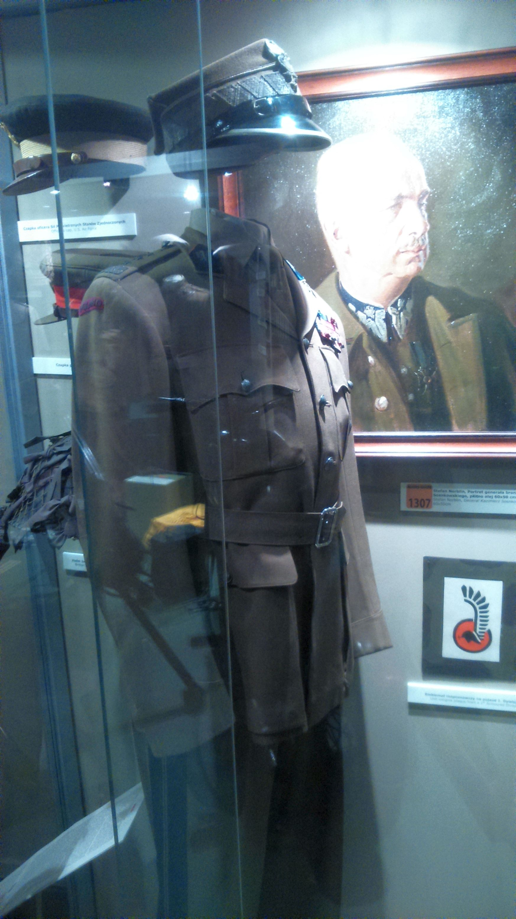 General Kazimierz Sosnkowski's uniform, Museum of the Polish Army, Warsaw.